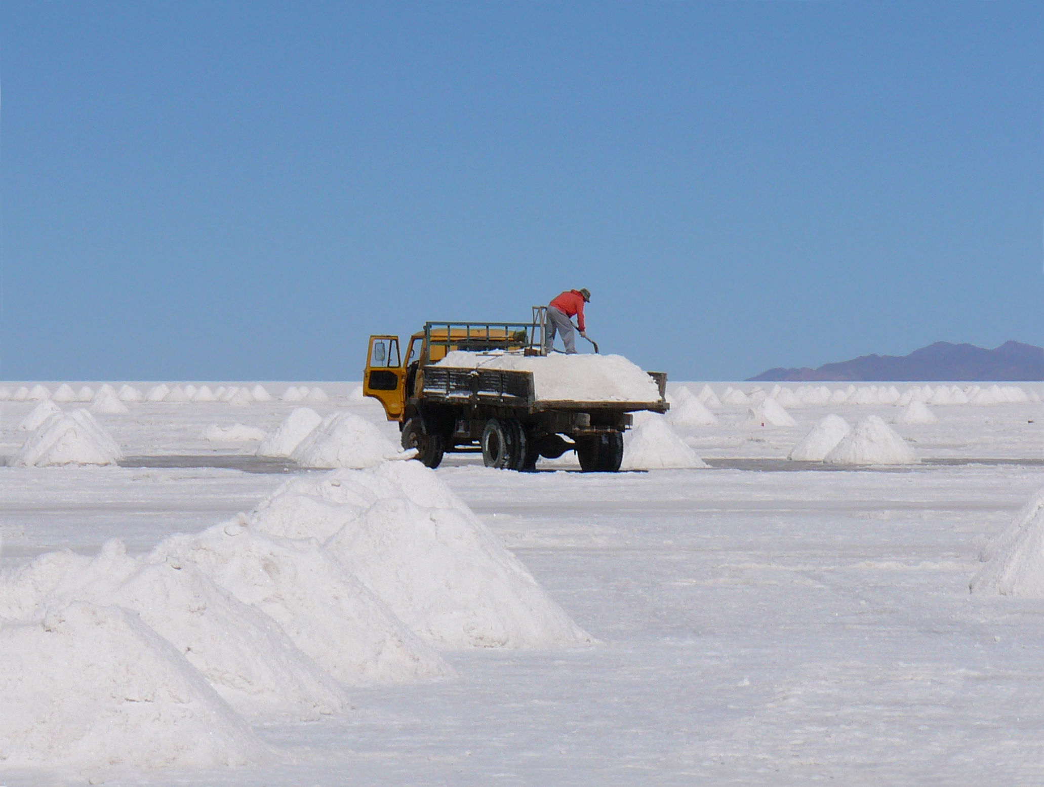 Truck Picking Salt at Uyuni - salt production